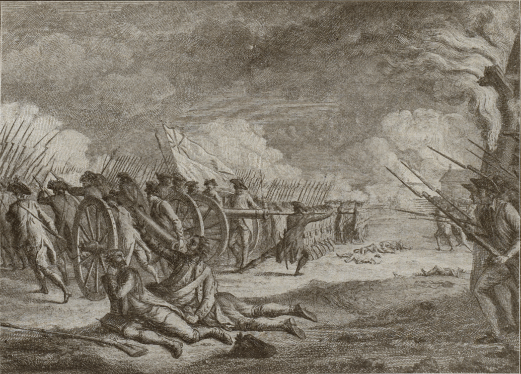 A stylized engraving that inaccurately depicts the Battle of Lexington, 19 April 1775.